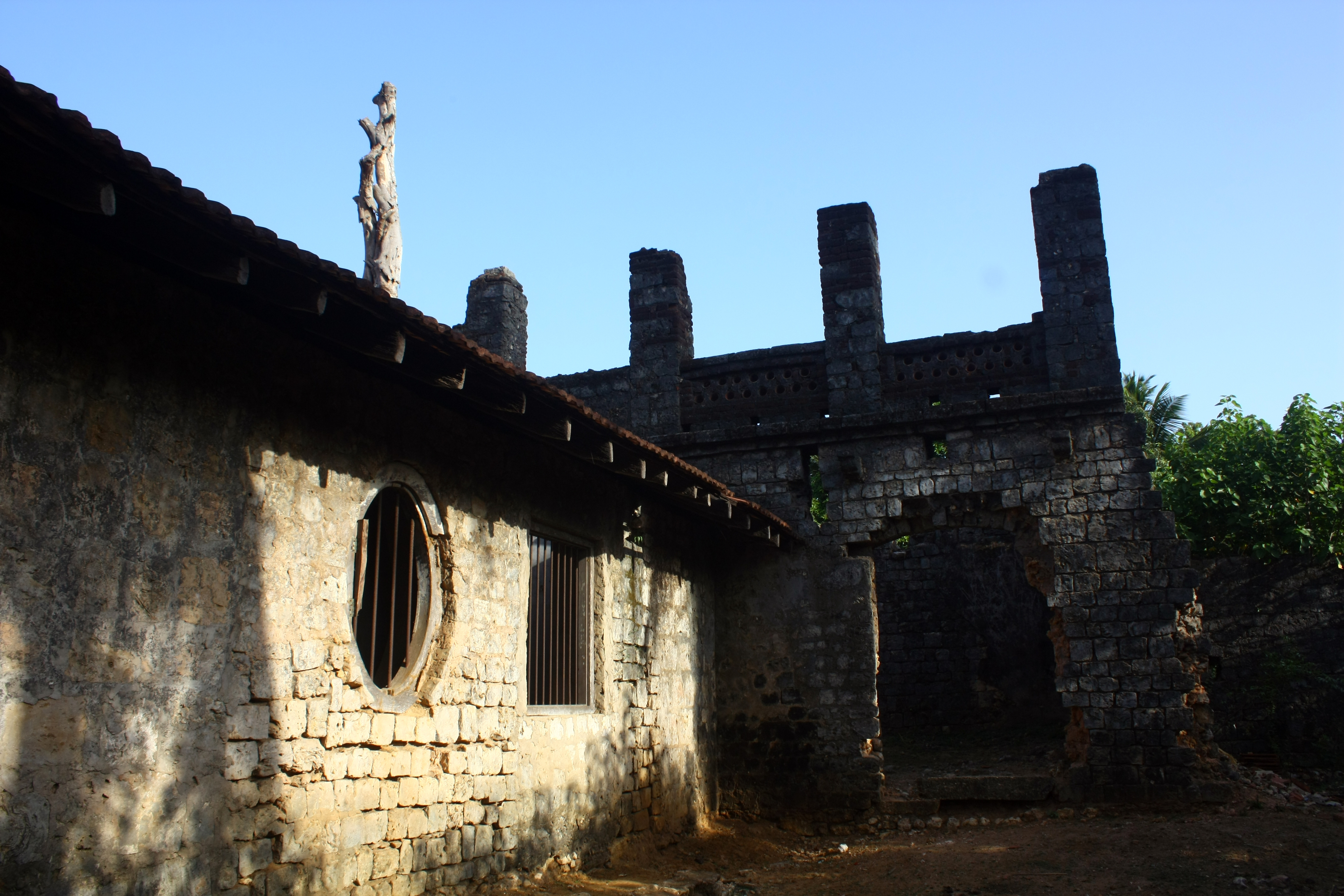 Rear side of Mantri Manai, Jaffna